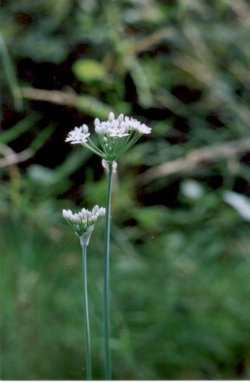 Oriental Garlic Chives flowers